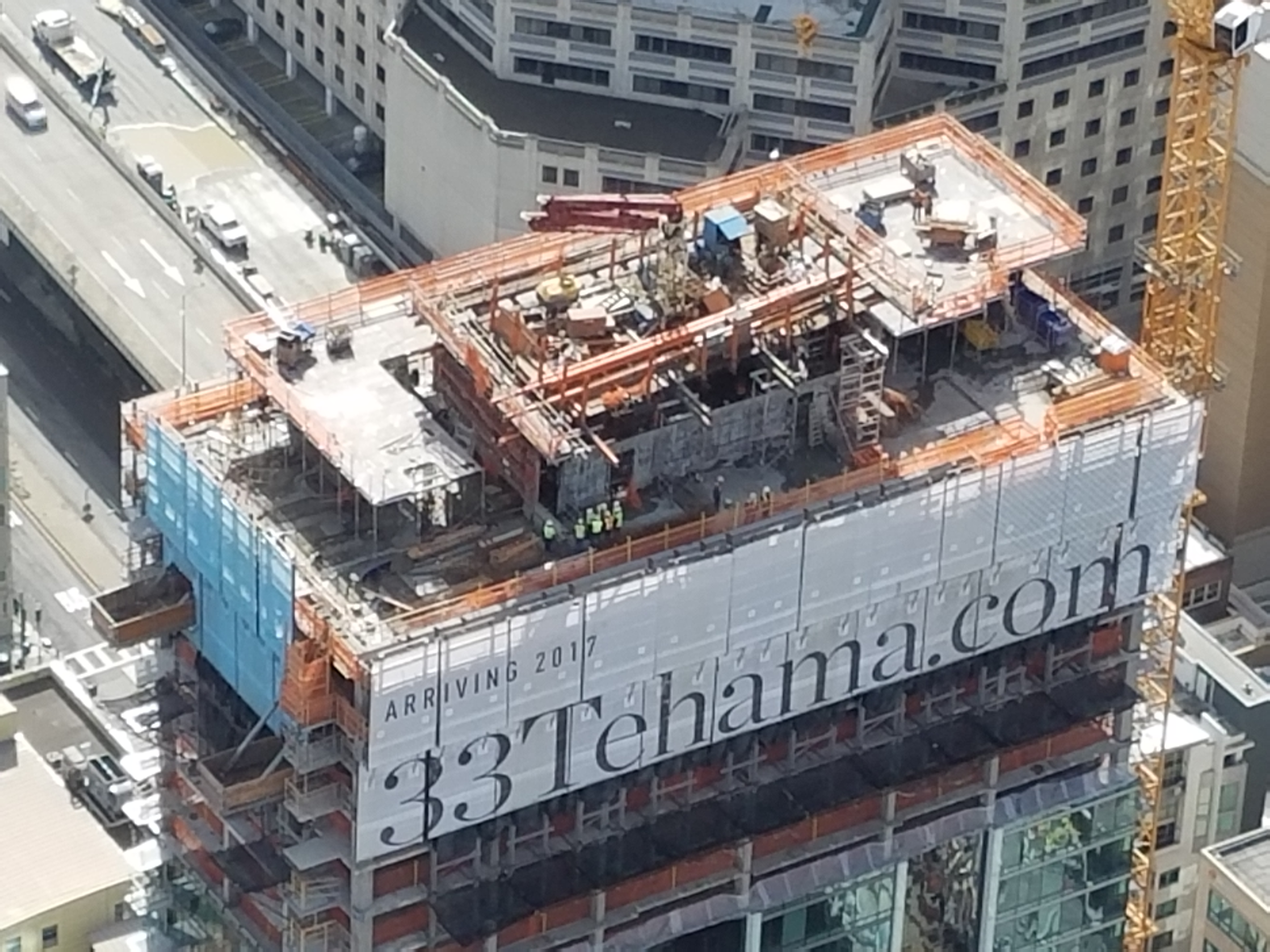 Upper floor of 33 Tehama Street, showing tilted formwork